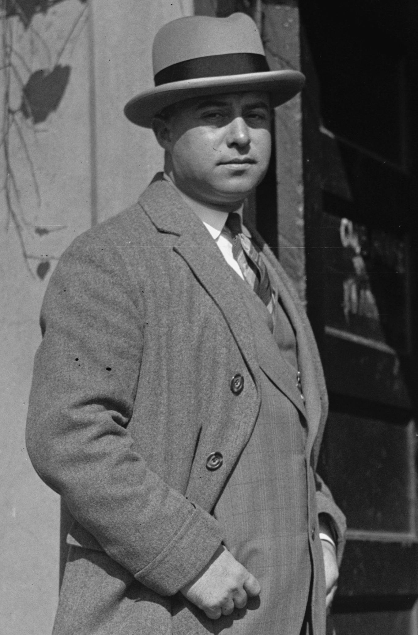 Former MLB umpire Bill McGowan in 1925.